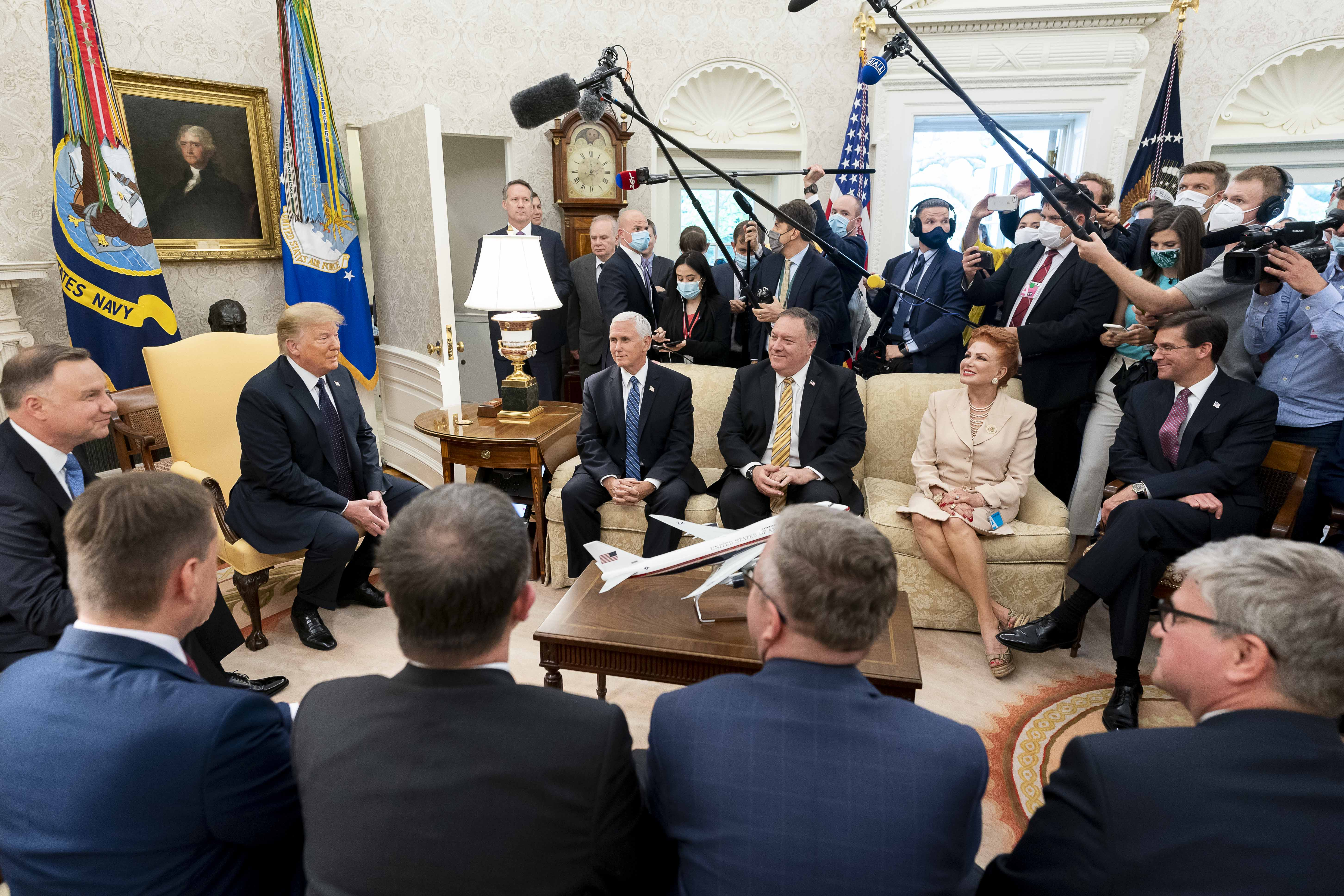 President Donald J. Trump participates in a bilateral meeting with Polish President Andrzej Duda Wednesday, June 24, 2020, in the Oval Office of the White House. (Official White House Photo by D. Myles Cullen)